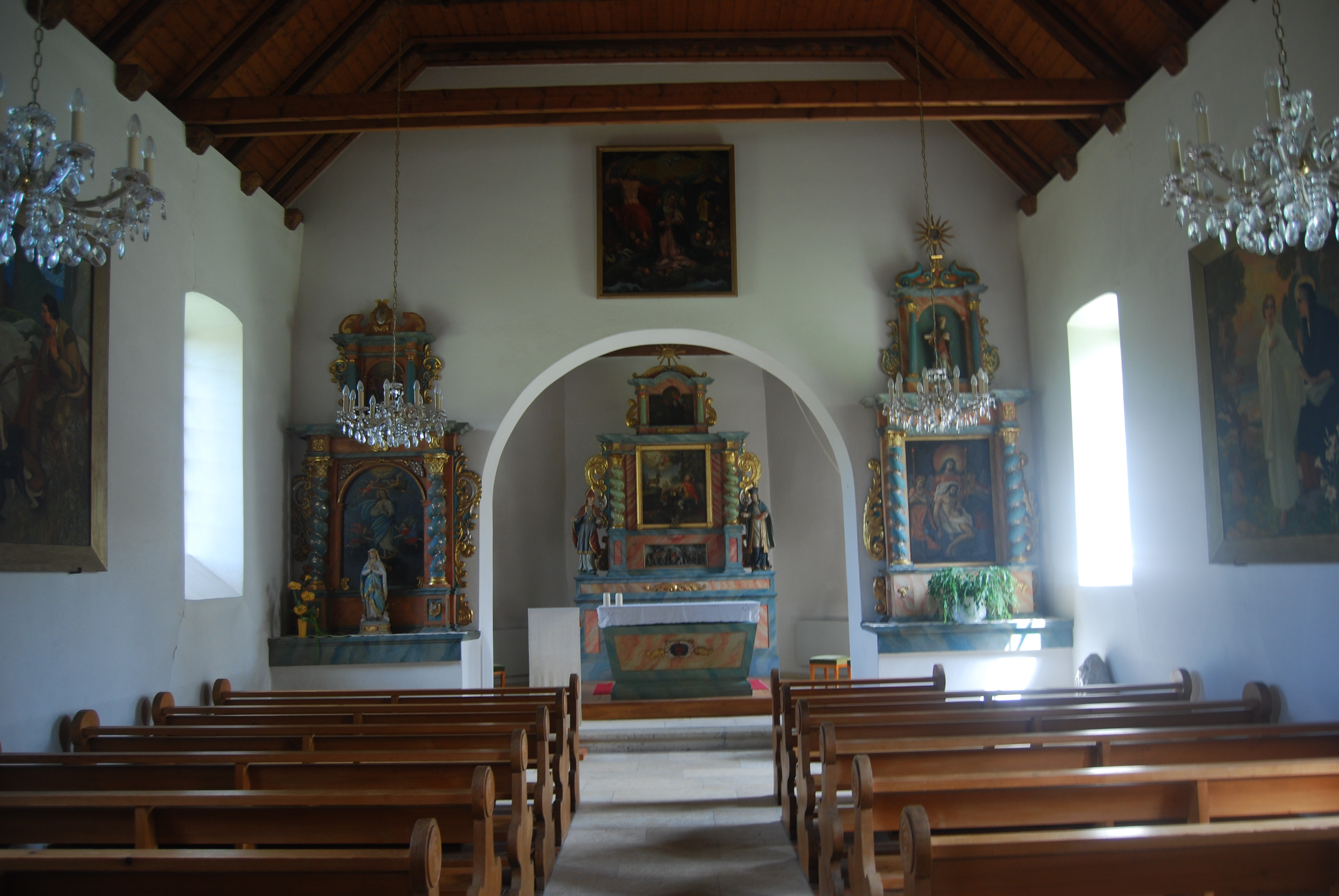 Chapell St. Hubert at Bassecourt, canton of Jura, SwitzerlandEsperanto: Kapelo Sankta Huberto en Bassecourt, Kantono Ĵuraso, Svislando